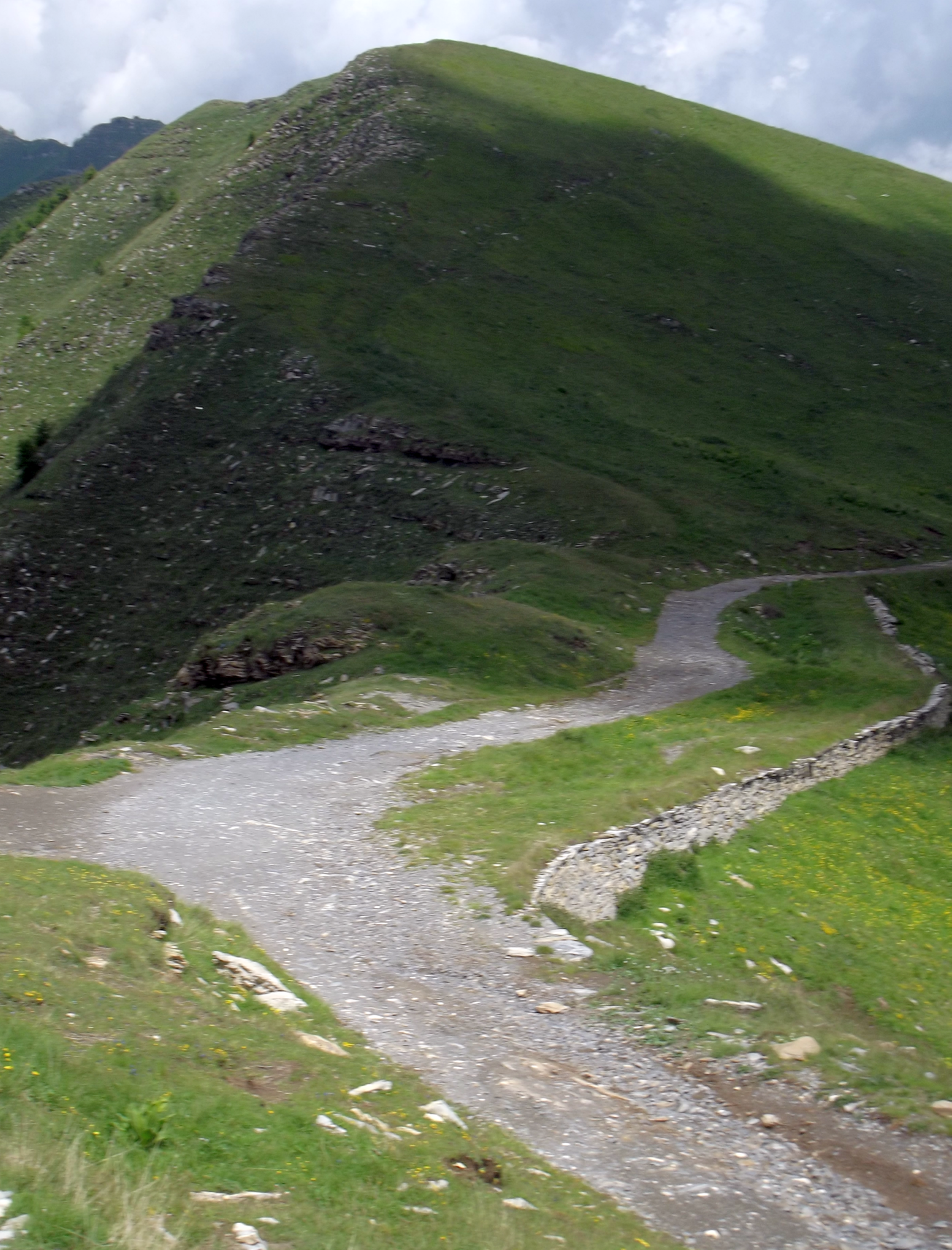 Mount Tanarello from Passo Basera